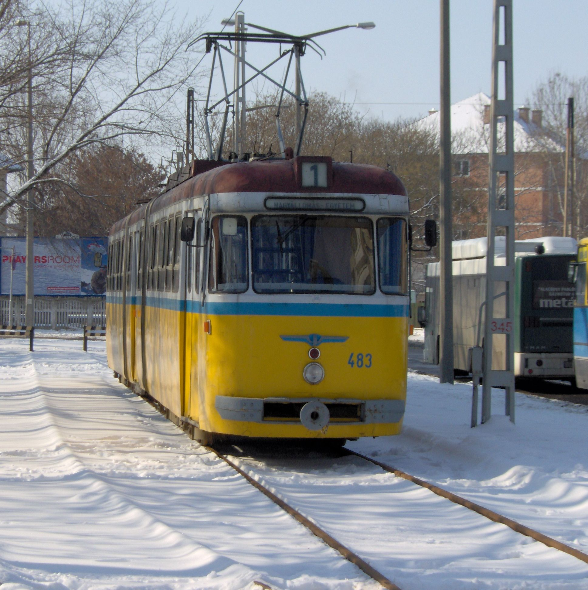 Debrecen tram No. 483 was built by DKV in the 1970.